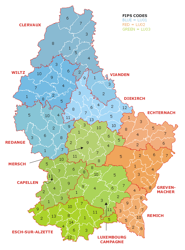 Map of the administrative divisions of Luxembourg. Districts, cantons, and communes are marked and numbered according to FIPS code.